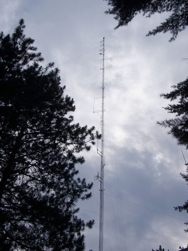 WTSA's northeast transmitter. This one broadcasts their FM signal.